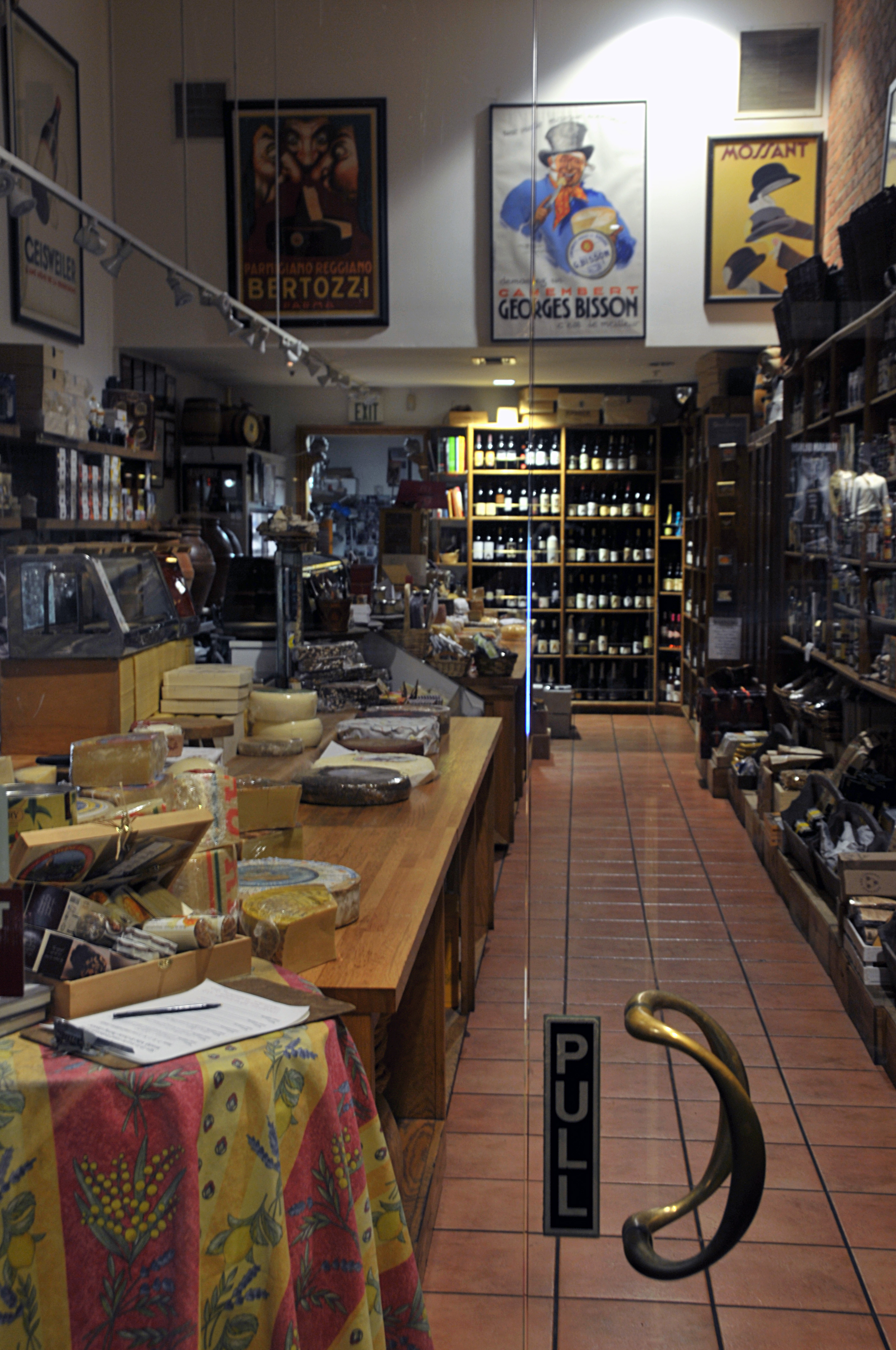 The Cheese Store of Beverly Hills Inside, Beverly Hills, California - Photo by Glenn Francis of